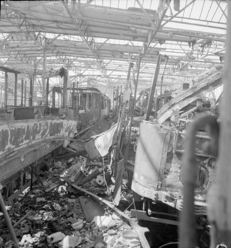 Royal Air Force Bomber Command, 1942-1945. View inside the tram terminus at Dusseldorf, Germany, wrecked as a result of repeated Bomber Command raids on the city in 1943 and 1944.